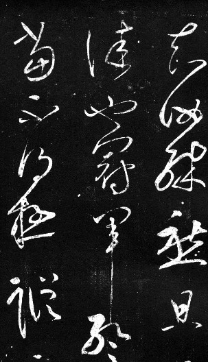 冠军帖